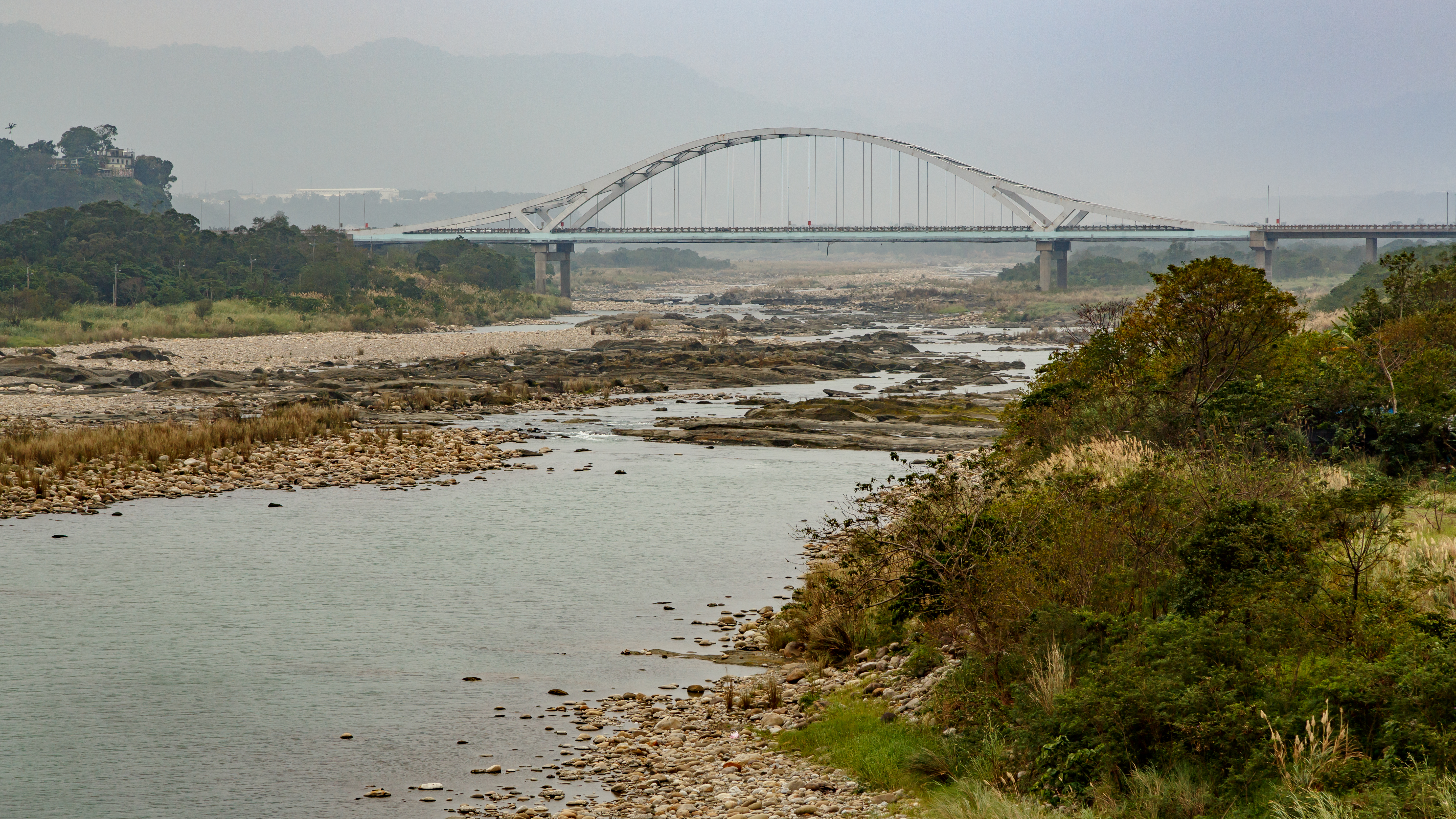 Daxi Township, Taoyuan, Taiwan: The new Daxi Highway Bridge over the Dahan River